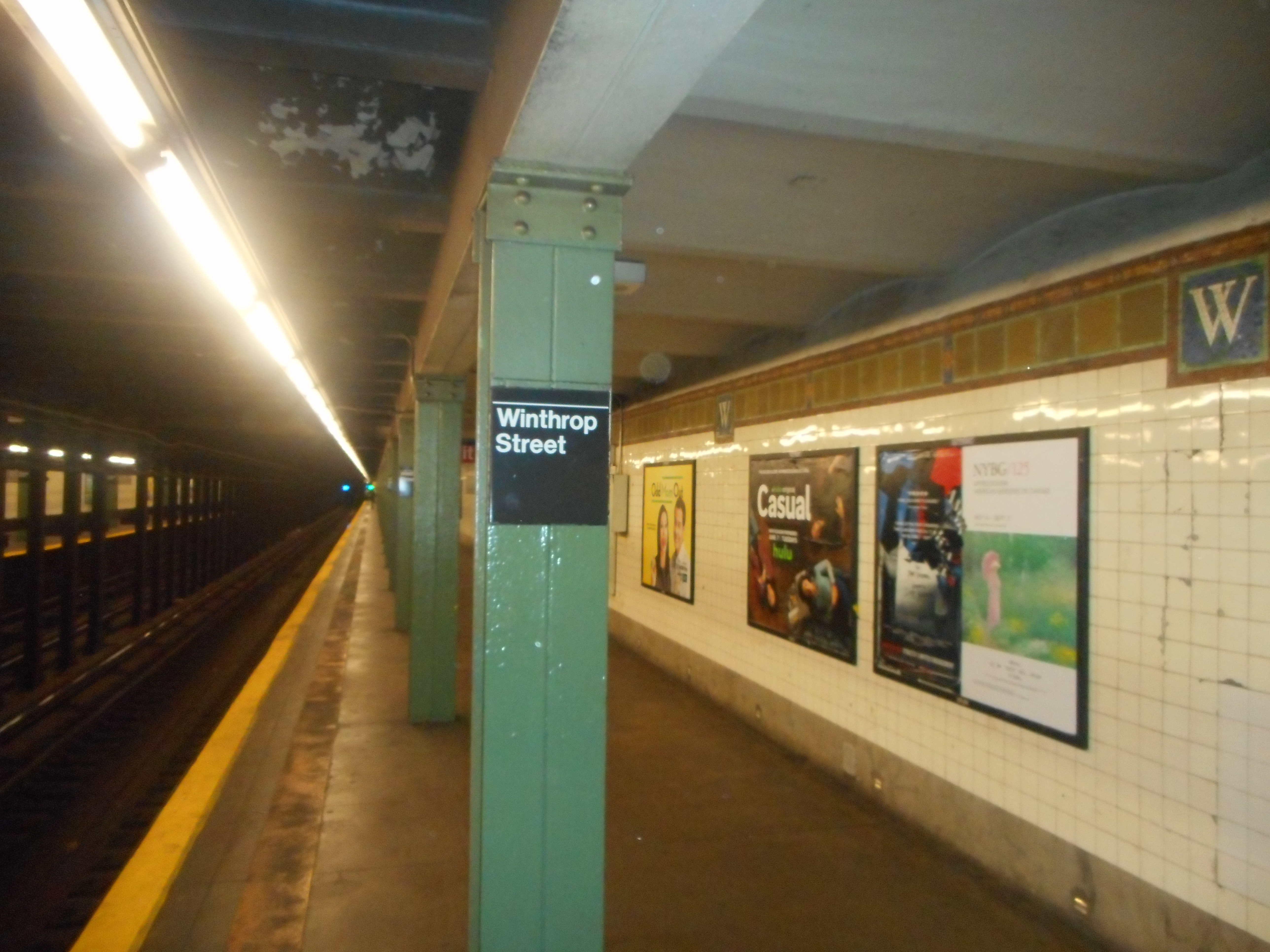 Another shot of one of the Helvetica pillared signs along one of the platforms of the Winthrop Street Subway Station on the IRT Nostrand Avenue Line in the Prospect Lefferts Gardens section of Brooklyn, New York City. There are also more traditional IRT "W" mosaics on the side of the wall.